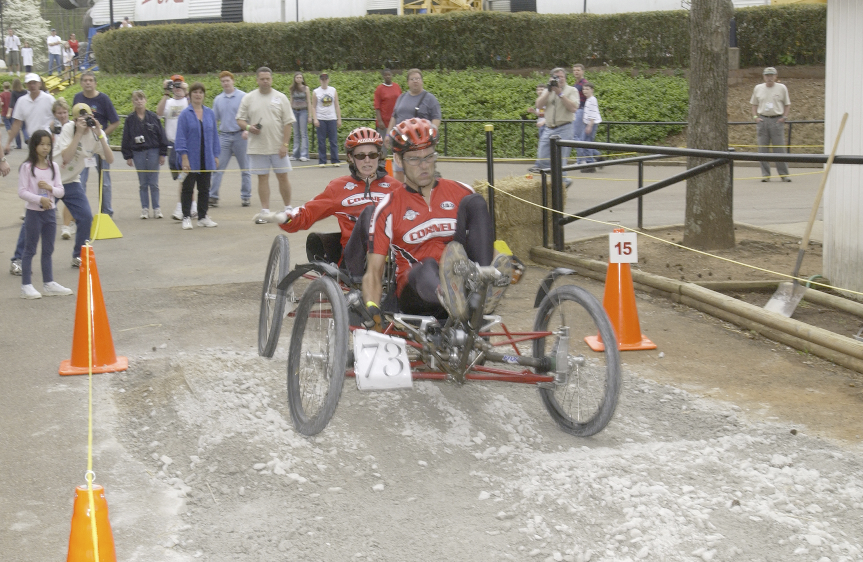 Students from across the United States and as far away as Puerto Rico and South America came to Huntsville, Alabama for the 9th annual Great Moonbuggy Race at the U.S. Space Rocket Center. Seventy-seven teams, representing high schools and colleges from 21 states, Puerto Rico, and Columbia, raced human powered vehicles over a lunar-like terrain. A team from Cornell University in Ithaca, New York, took the first place honor in the college division. This photograph shows the Cornell #2 team driving their vehicle through the course. The team finished the race in second place in the college division. Vehicles powered by two team members, one male and one female, raced one at a time over a half-mile obstacle course of simulated moonscape terrain. The competition is inspired by development, some 30 years ago, of the Lunar Roving Vehicle (LRV), a program managed by the Marshall Space Flight Center. The LRV team had to design a compact, lightweight, all-terrain vehicle, that could be transported to the Moon in the small Apollo spacecraft. The Great Moonbuggy Race challenges students to design and build a human powered vehicle so they will learn how to deal with real-world engineering problems, similar to those faced by the actual NASA LRV team. Keywords: Great Moonbuggy Race, Cornell University, Lunar Roving Vehicle, LRV MSFC Negative Number: 0200908 Reference Number: MSFC-75-SA-4105-2C